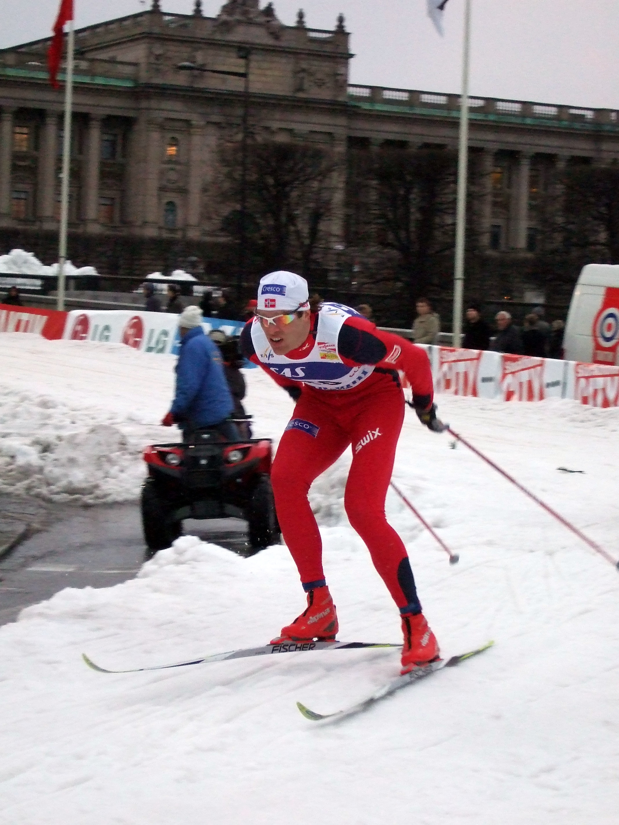 Trond Iversen at the Royal Castle World Cup sprint in Stockholm, Sweden